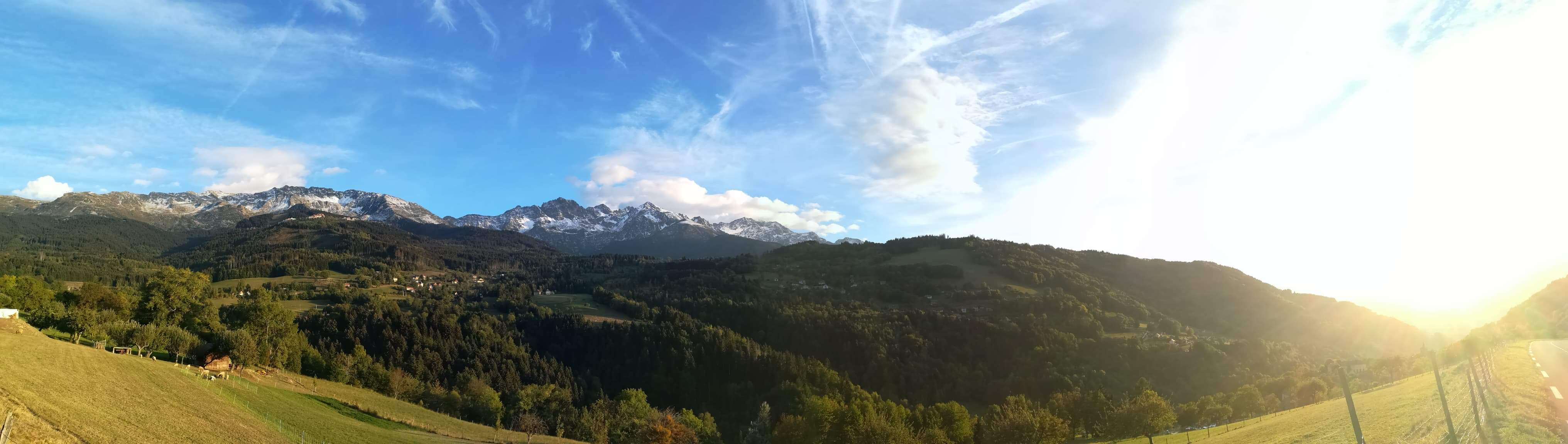 Panoramic view of Pipay, Prapoutel and Laval from the road D250 just above Les Adrets.